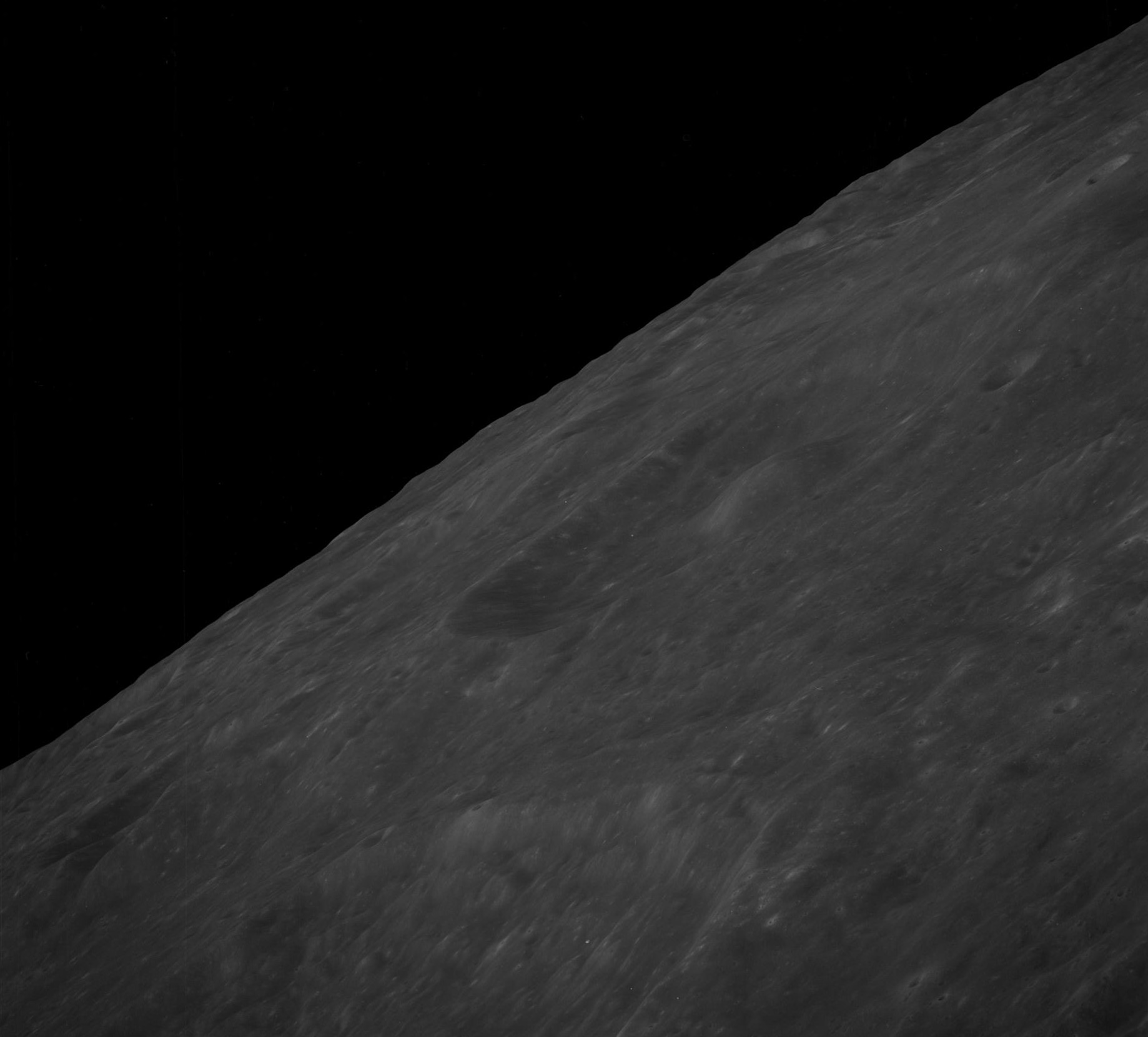 Oblique view of Behaim crater (right), facing south, on the moon. Black sky cropped slightly and some photo blemishes removed.